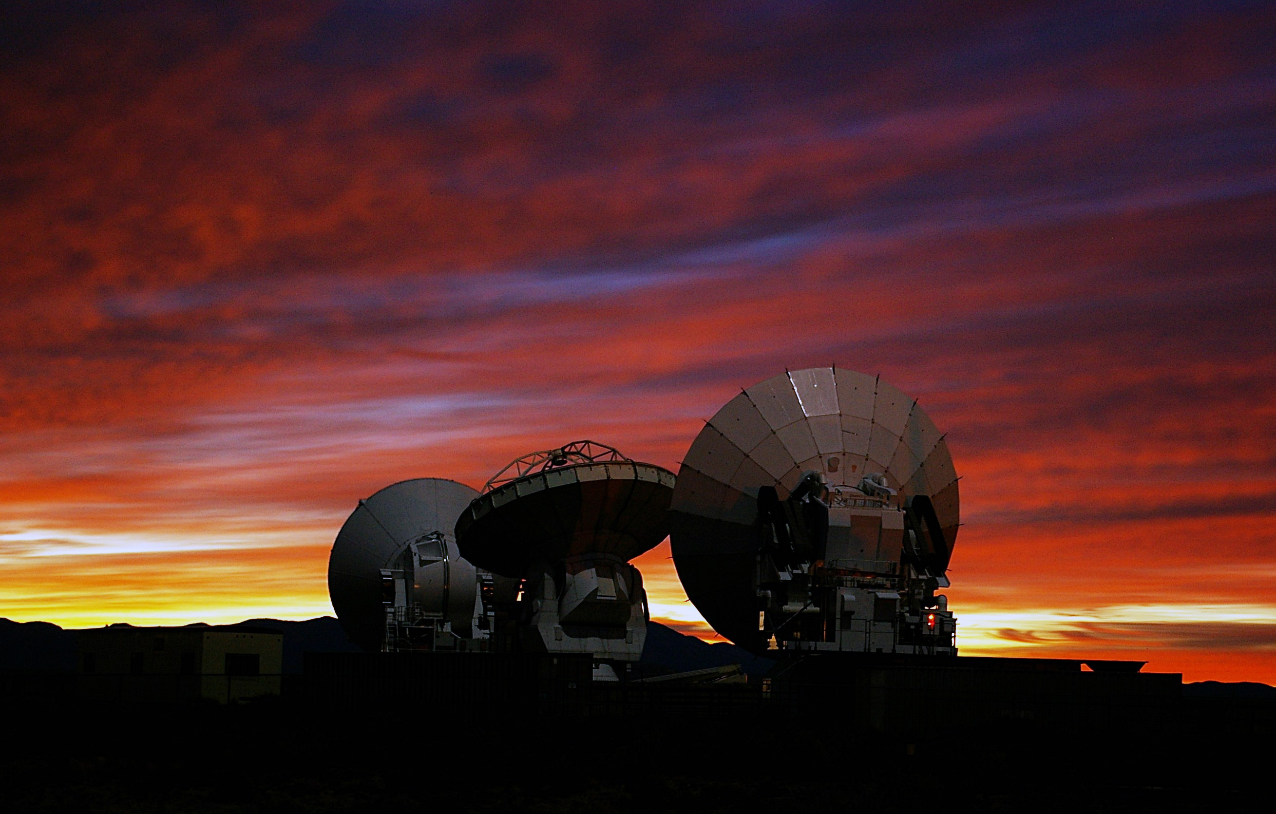 A spectacular sunset view of the three prototypes of ALMA antennas, developed by Japan, North America and Europe, respectively, at the ALMA Test Facility (ATF) in Socorro, New Mexico, USA, where they have been evaluated.